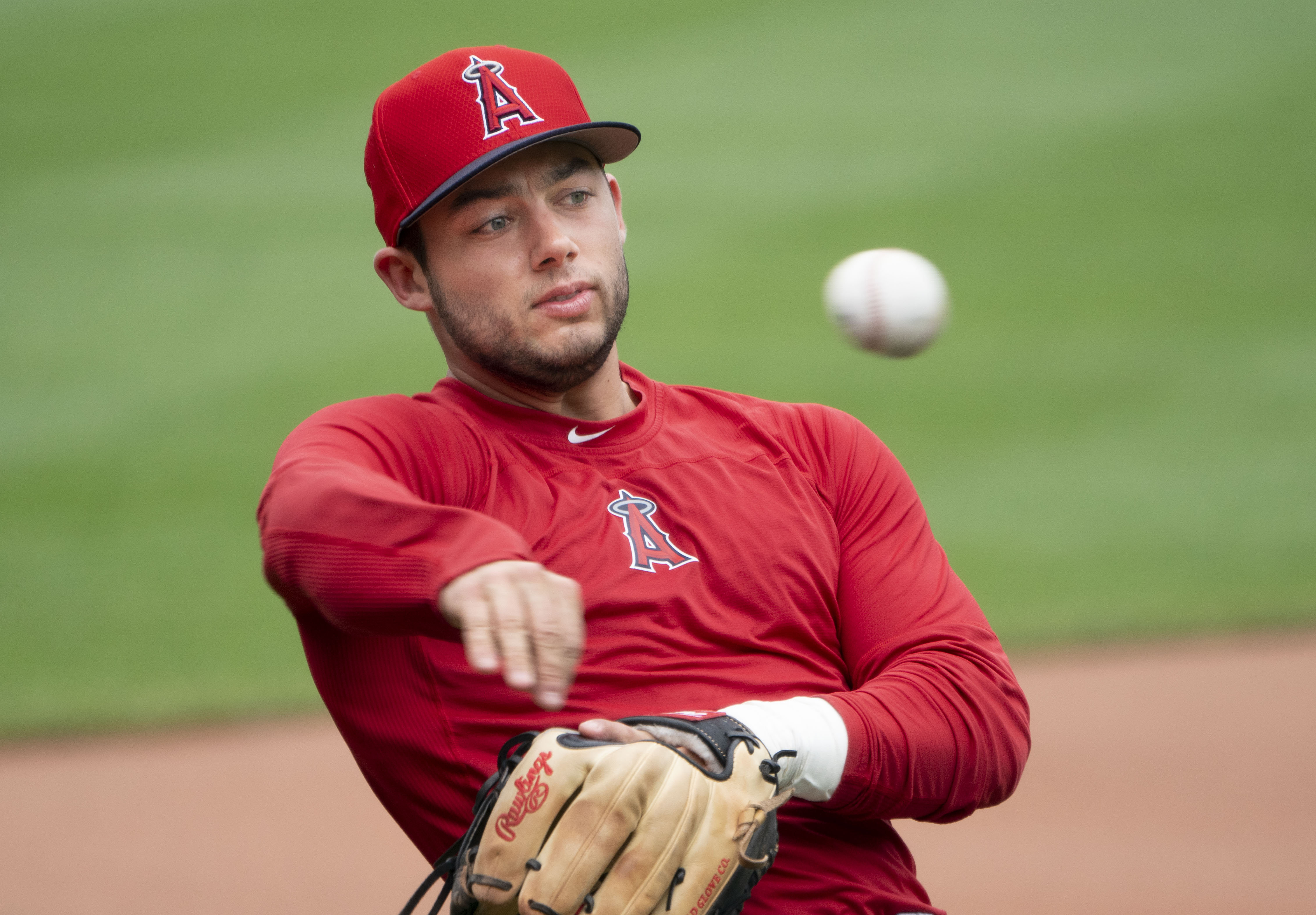 David Fletcher with the Angels in 2019